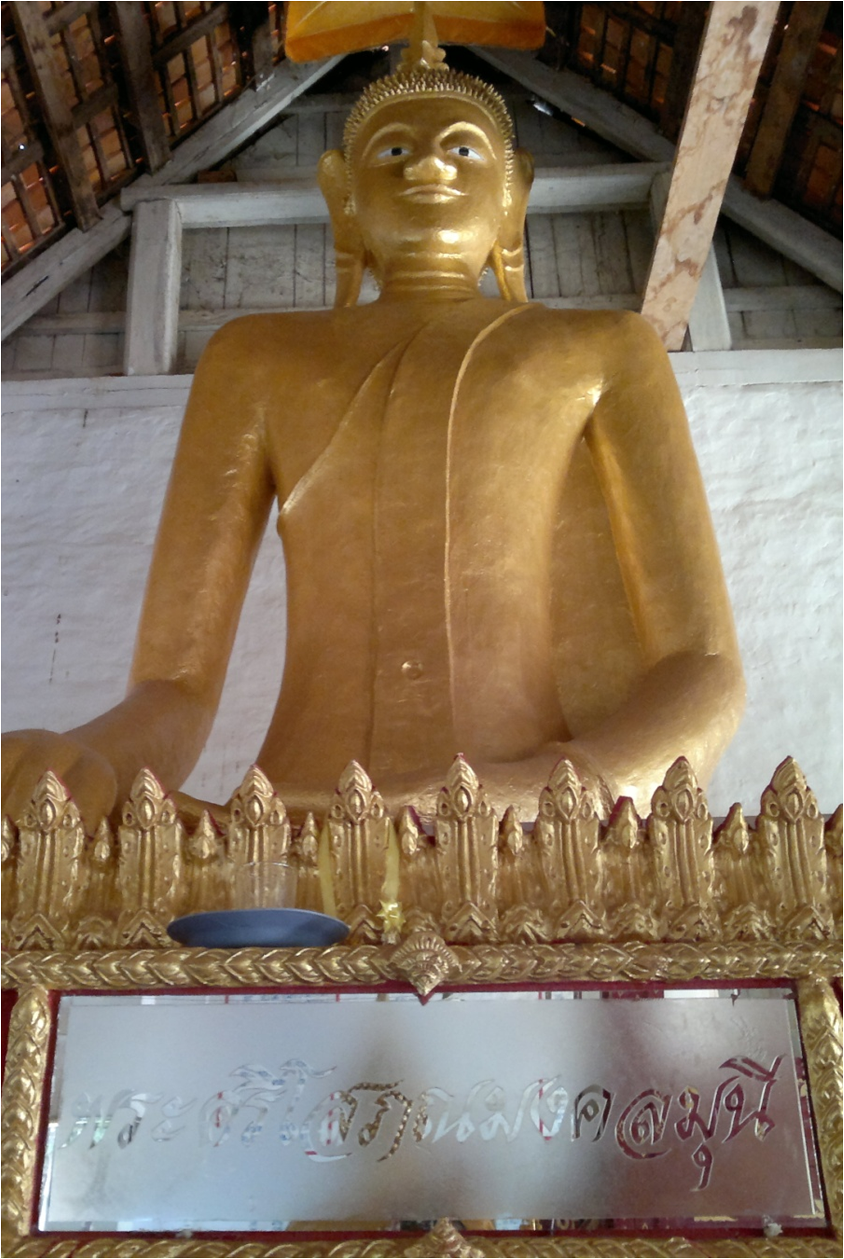 Ban Fai บ้านฝาย หมู่ที่ 1 ตำบลบ้านฝาย อำเภอน้ำปาด จังหวัดอุตรดิตถ์